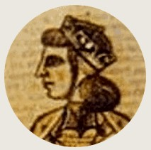 Manfred of Sicily